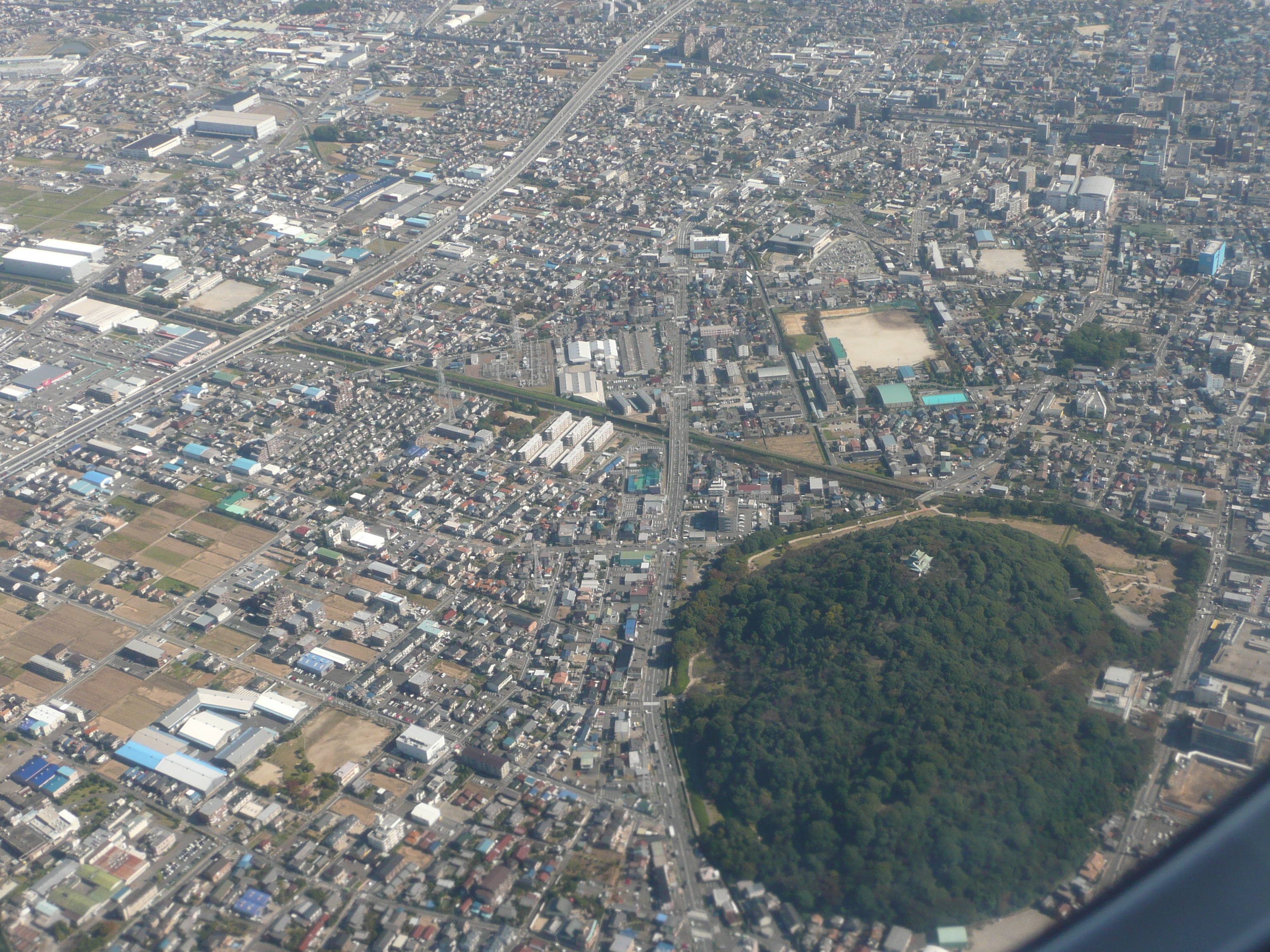 小牧山